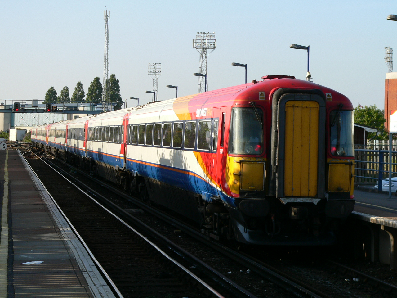 South West Trains Class 442 750v dc third rail EMUs (44)2418 Wessex Cancer Trust and the unnamed (44)2413 , photographed at Poole railway station en route to sidings a short distance west of the station.